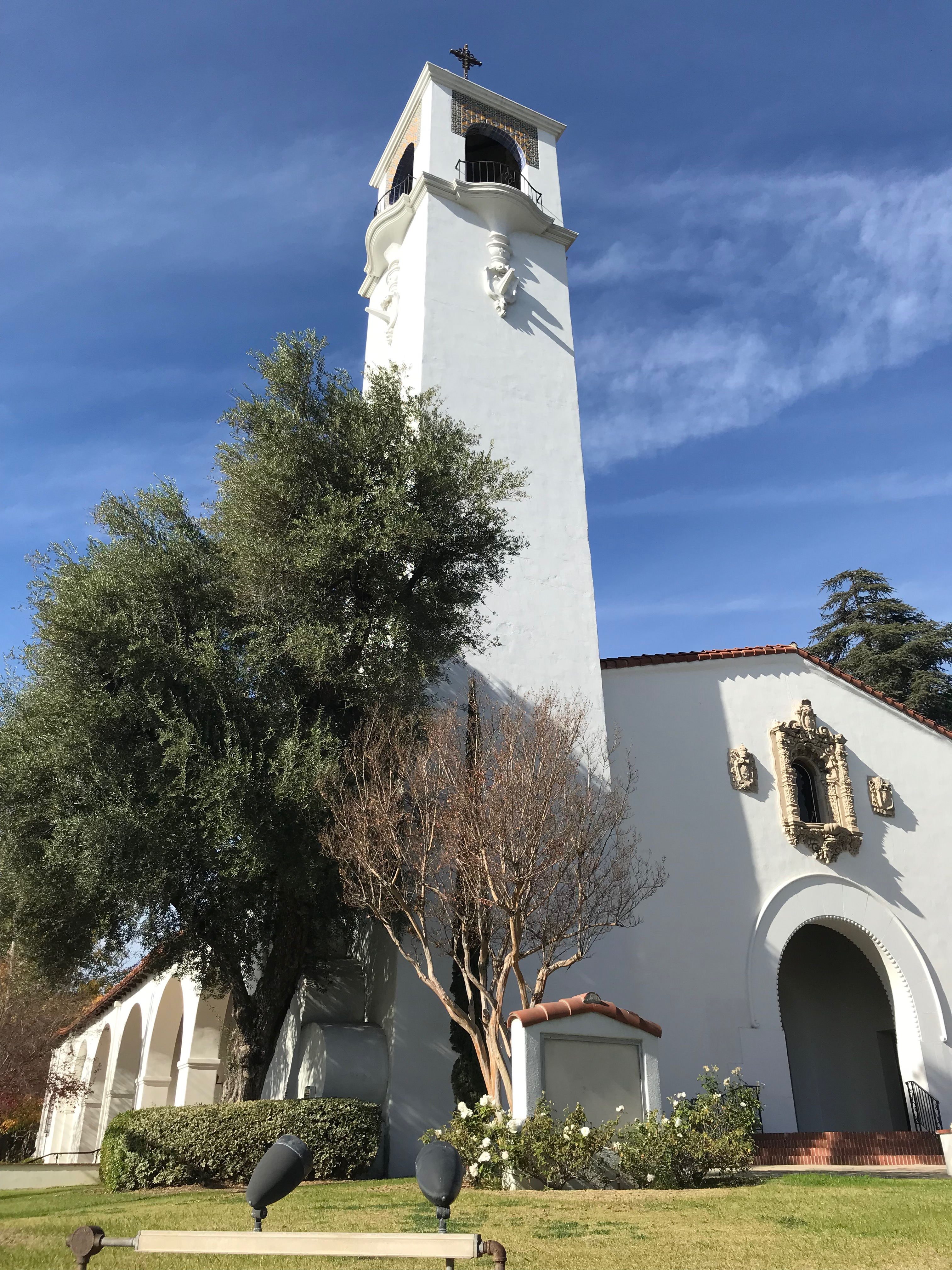 St. Elizabeth of Hungary Church, Pasadena, California